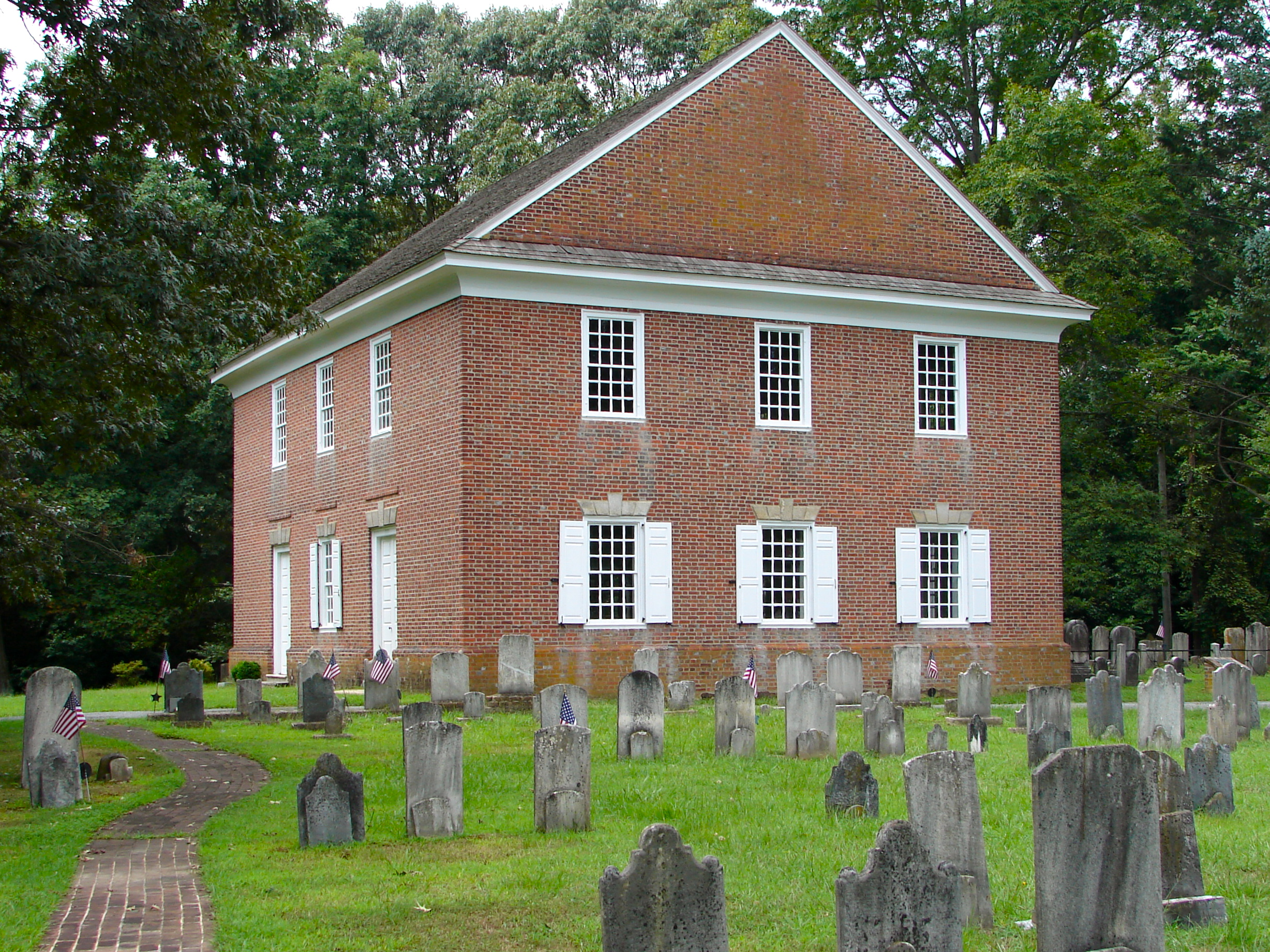 Pittsgrove Presbyterian Church on the NRHP since September 19, 1977 Main St., Daretown, New Jersey (which must have been formerly named Pittsgrove because all 3 churches in the town are named Pittsgrove) Daretown is obviously unincorporated consisting of about 10 buildings - 2 of them named Pittsgrove Presbyterian (this is the old one) and one Baptist or Methodist. Near the metropolis of Woodstown, NJ.